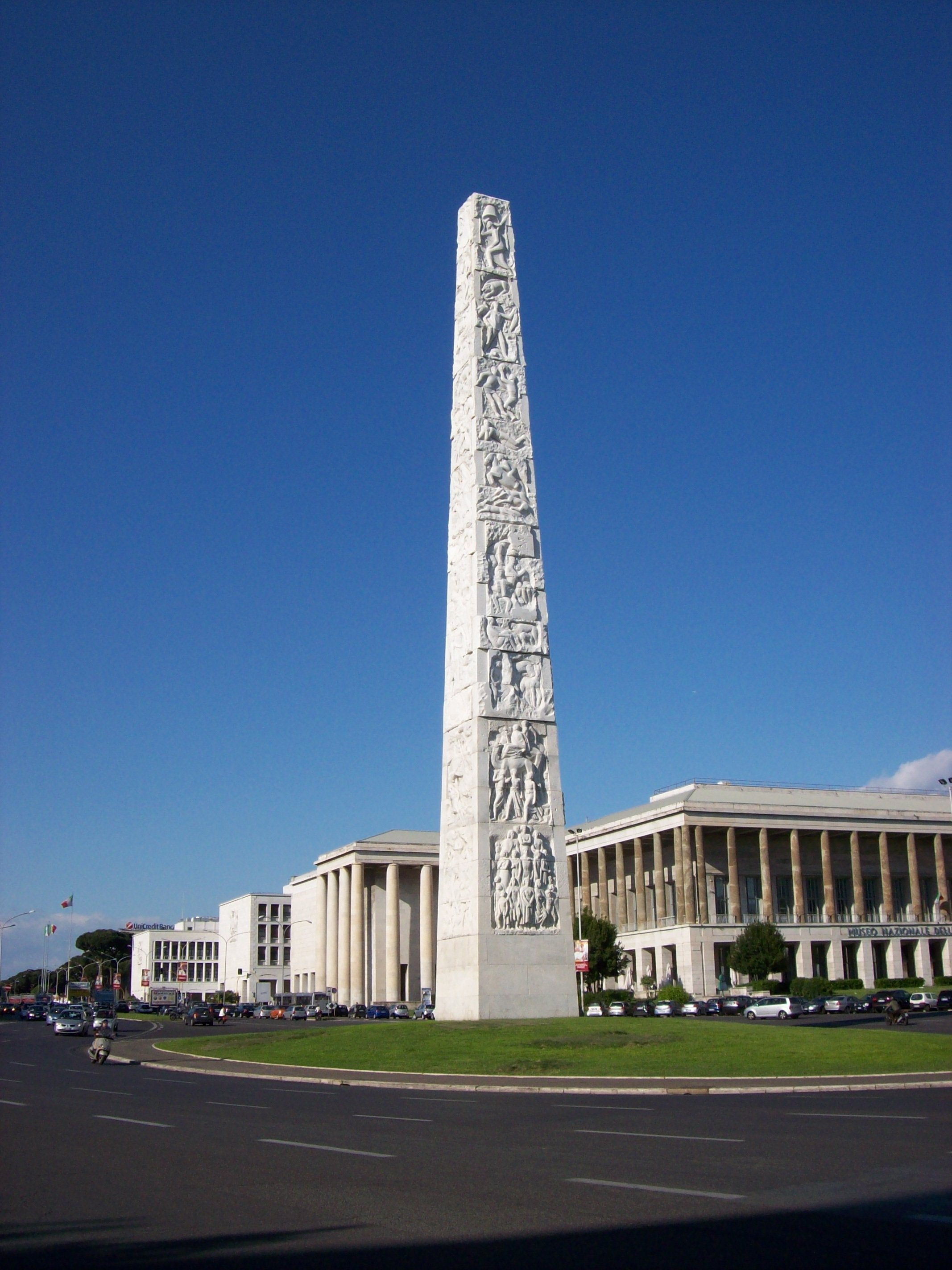 Guglielmo Marconi obelisk at EUR, Rome